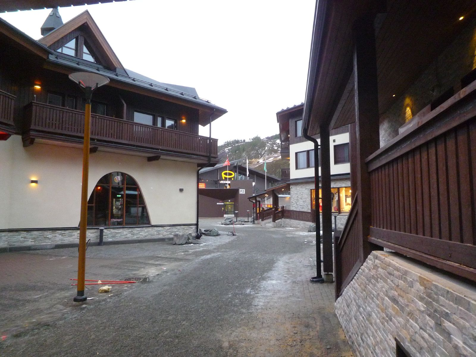 Ruka ski resort village in Kuusamo, Finland